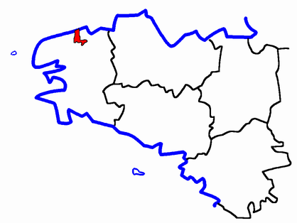 Description: Map for localisazion of cantons of Bretagne region in France Source: made by Hervé Tigier in april 2005 from another large map (published in 1990)